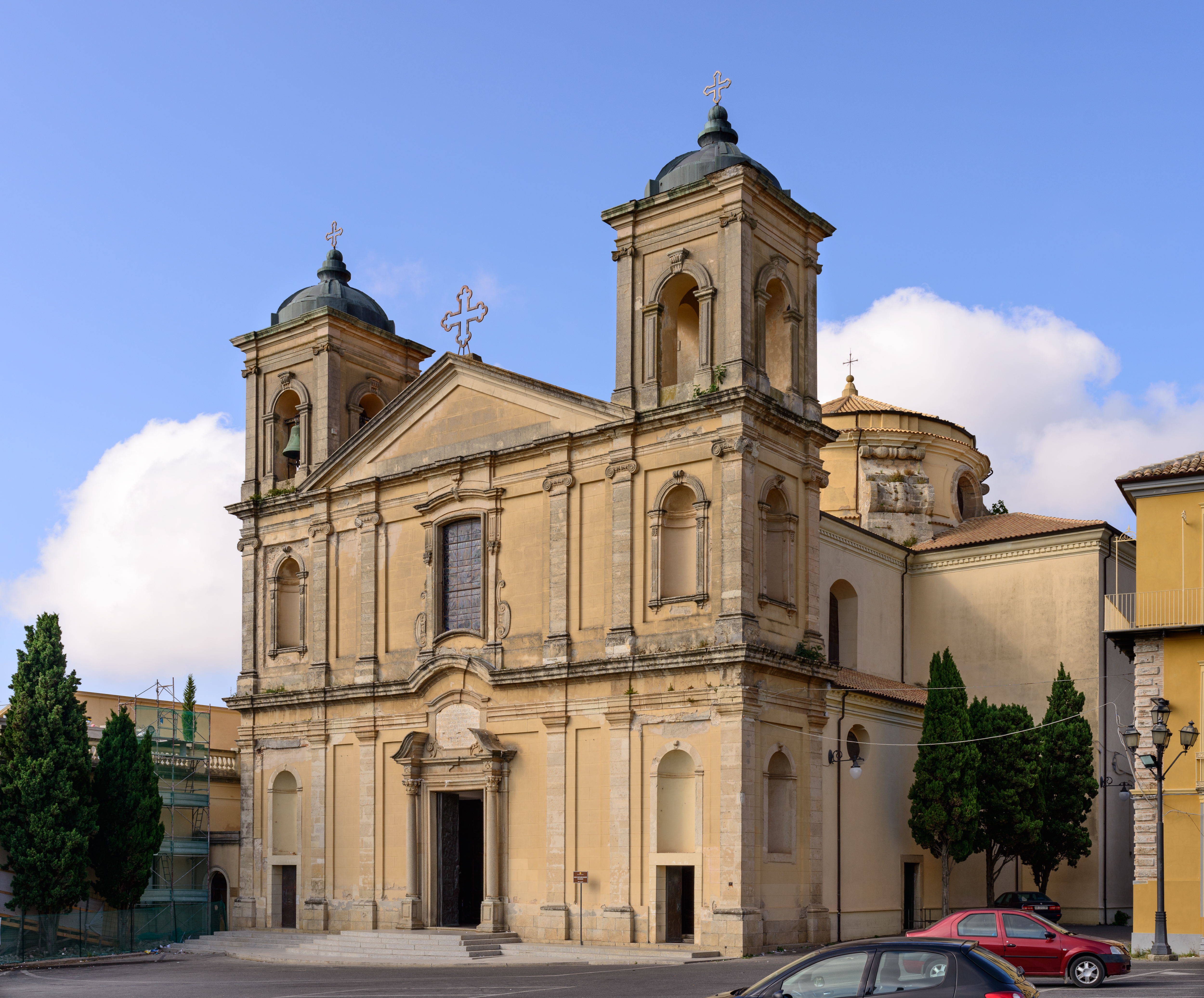 Duomo Santa Maria Maggiore, Vibo Valentia, Calabria, Italy.